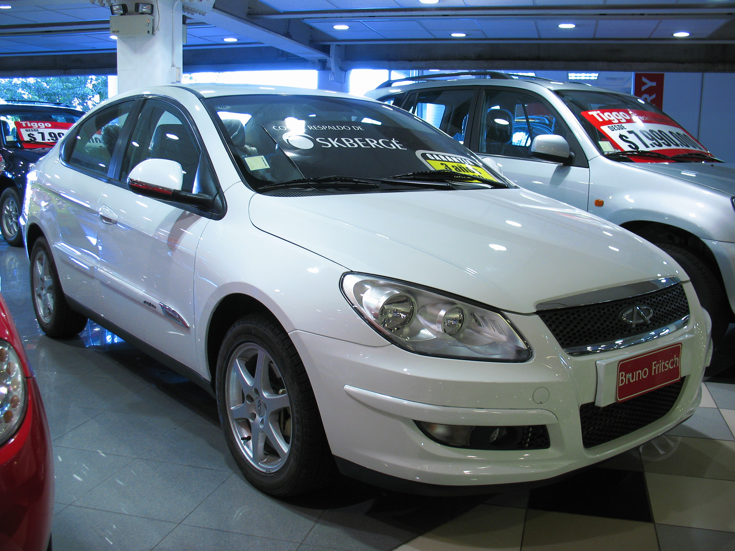 Chery Skin GL 2010